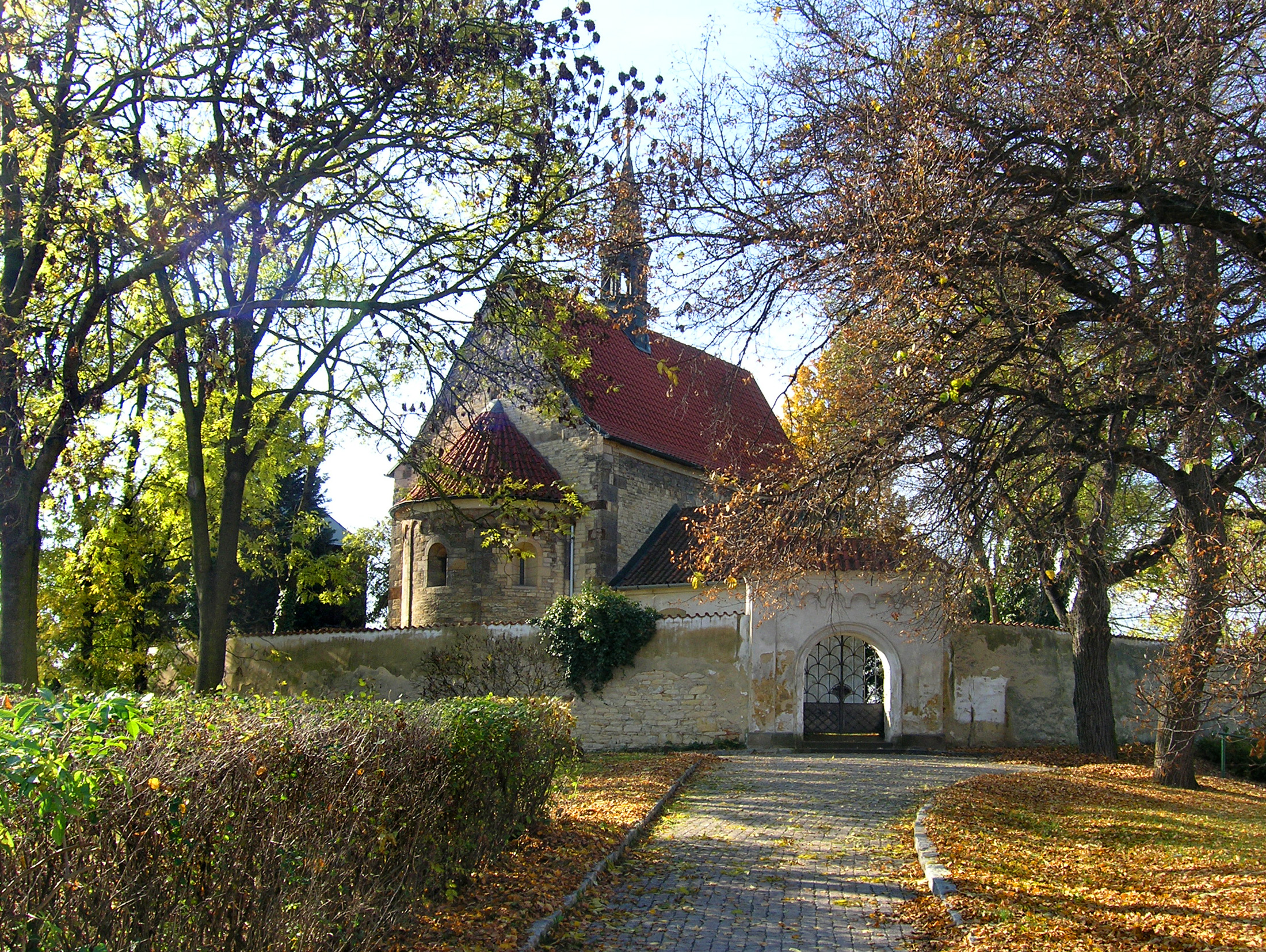 Svatý Jan Křtitel church in Dolní Chabry, Prague